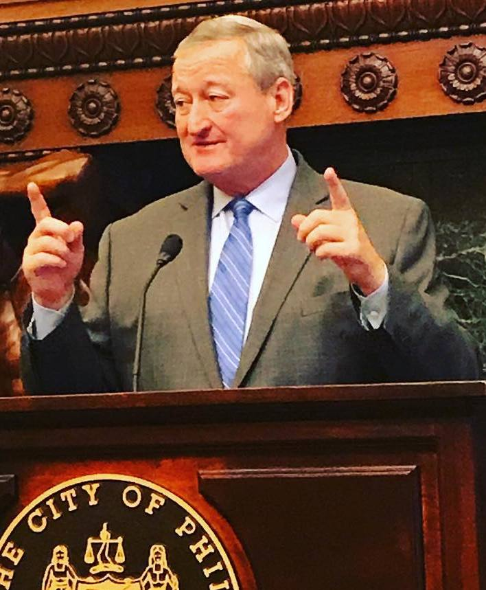 Jim Kenney Mayor